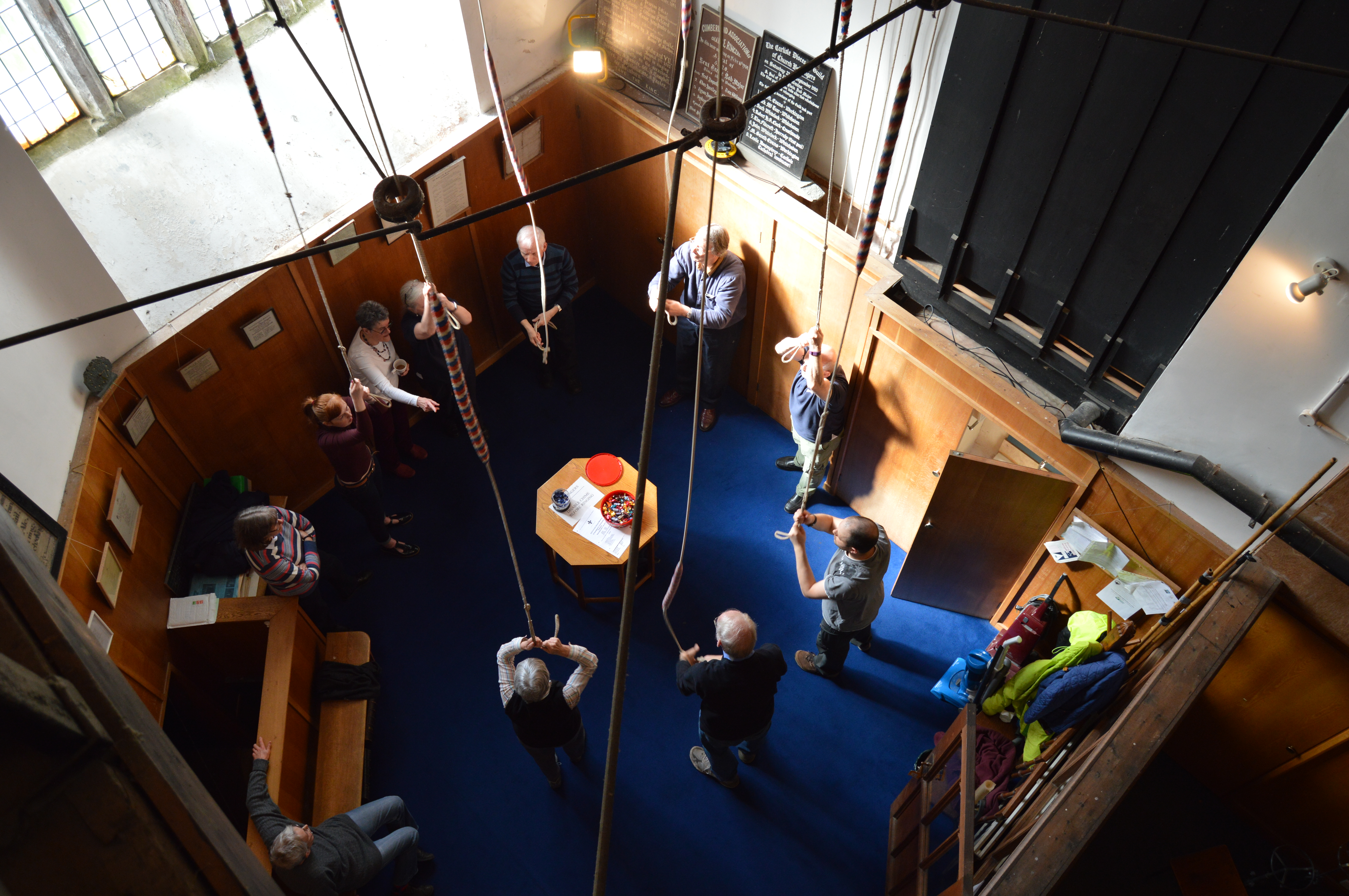 View from the clock platform of the Carlisle Diocesan Guild of Church Bell ringers at St Kentigern's Church, Crosthwaite; ringing for their annual meeting.